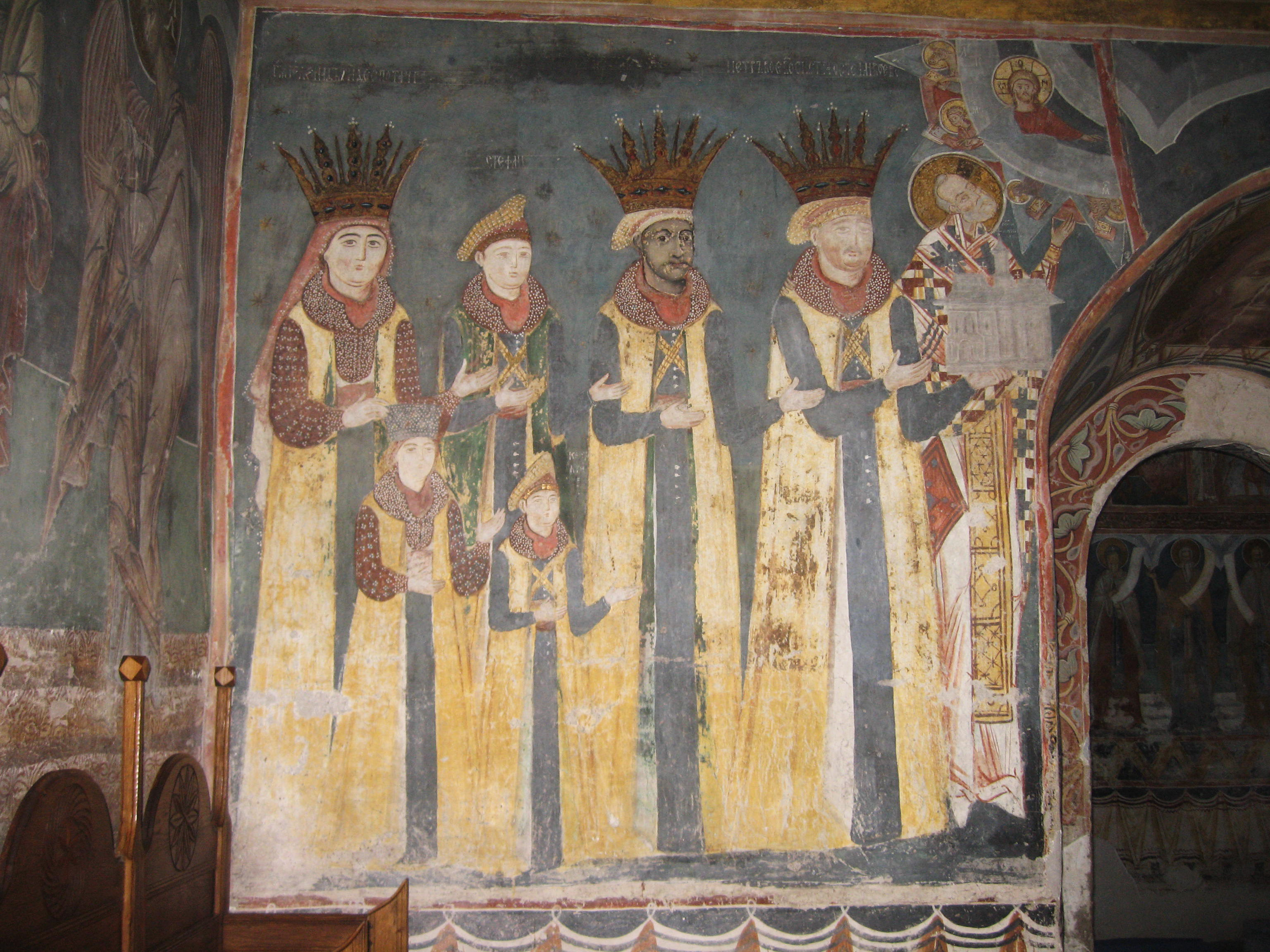 Probota Monastery